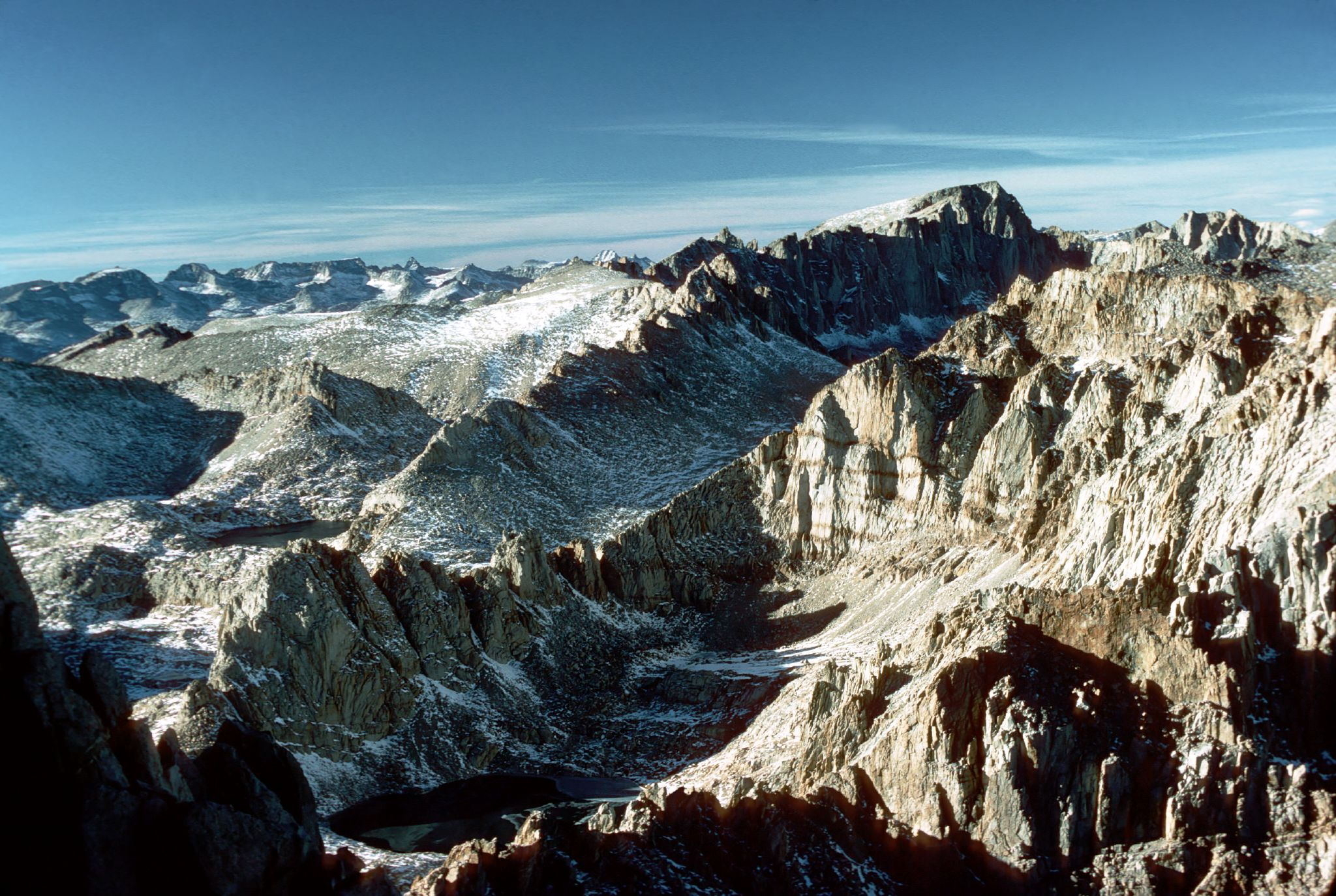 Looking to the north towards Mount Whitney and the Sierra Nevada from Mount Langley, California